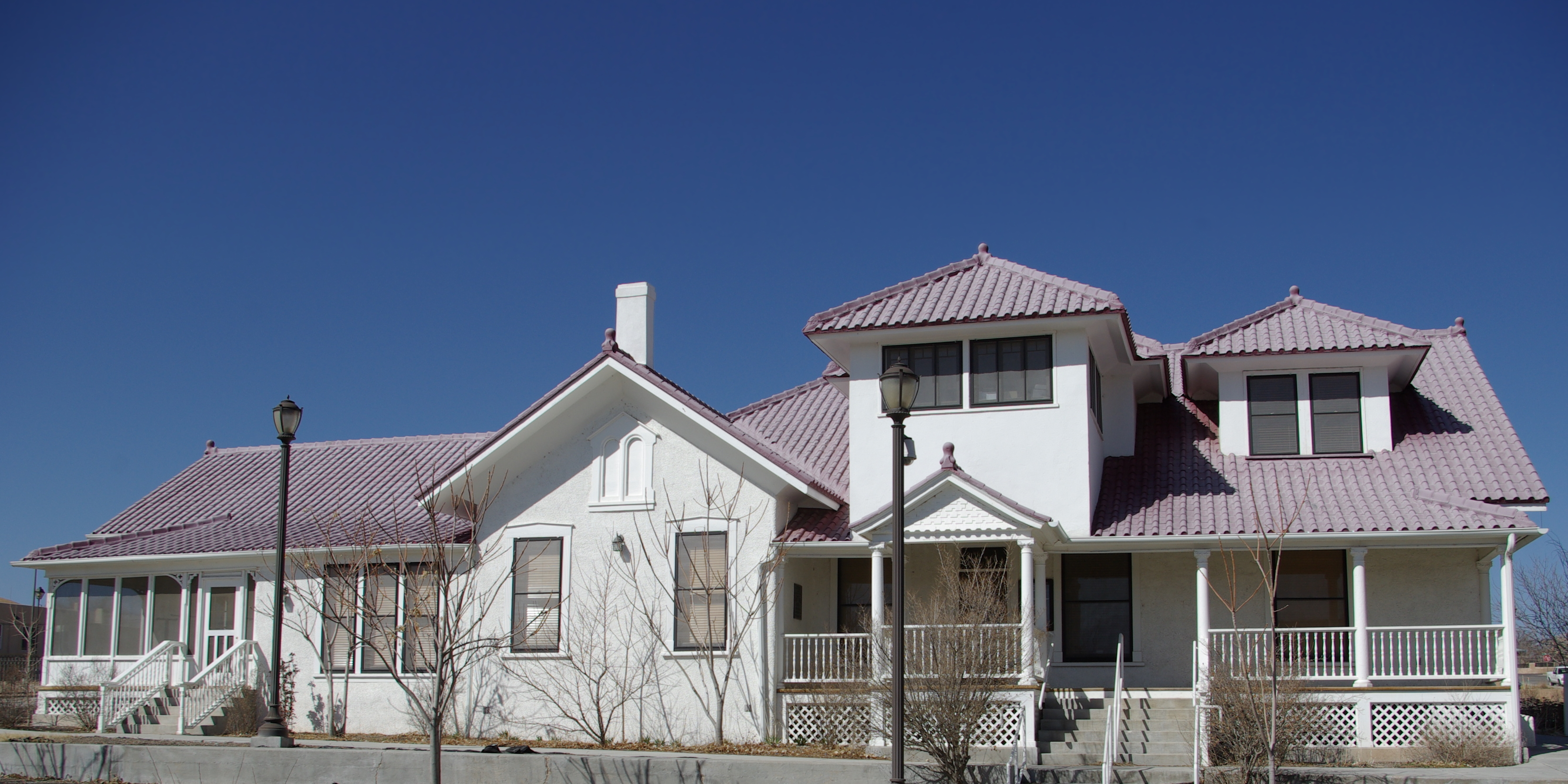 The Bond House, started 1887 as a two-room adobe, now a museum, Española, New Mexico